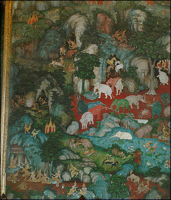 Himaphan mural at ubosoth of Wat Suthat, Bangkok